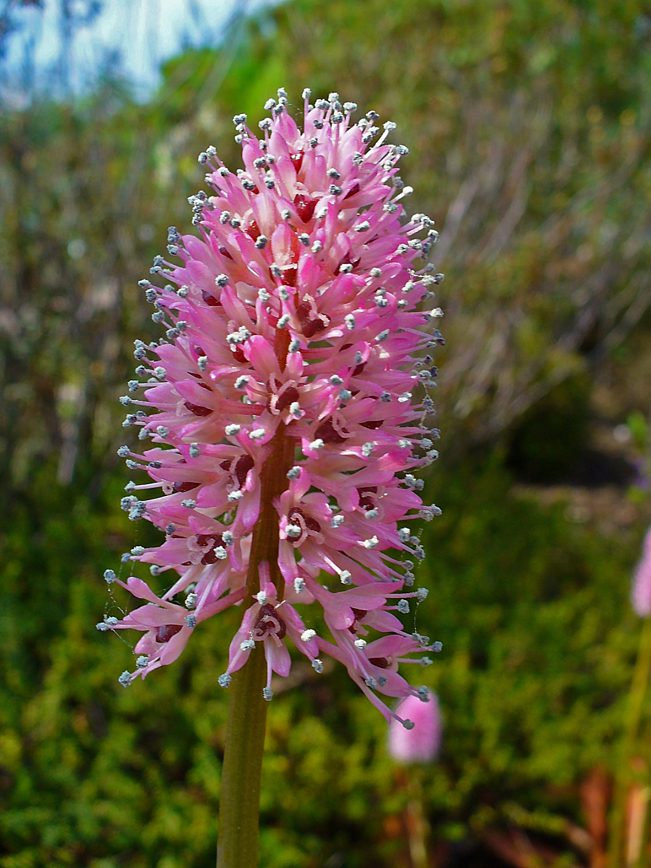 Helonias bullata, Melanthiaceae, Swamp Pink, inflorescence; Botanical Garden KIT, Karlsruhe, Germany.